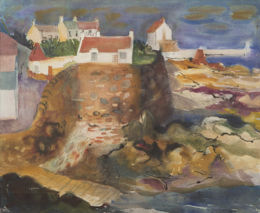 On the Fifeshire Coast (St. Monans) Watercolour with pen and ink.